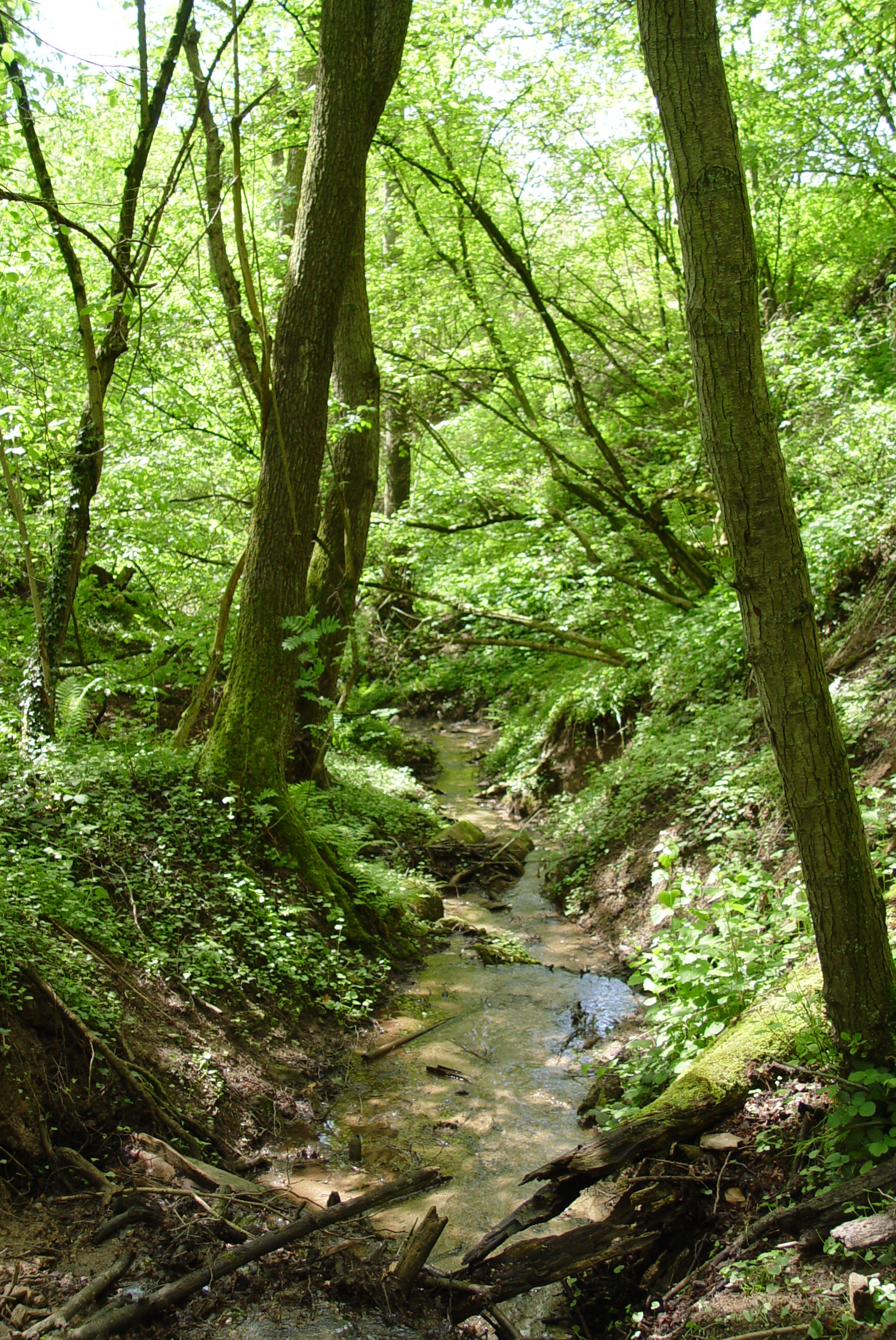 Dörnbach in Dörngraben between Aschaffenburg and Haibach, NSG-00339-01